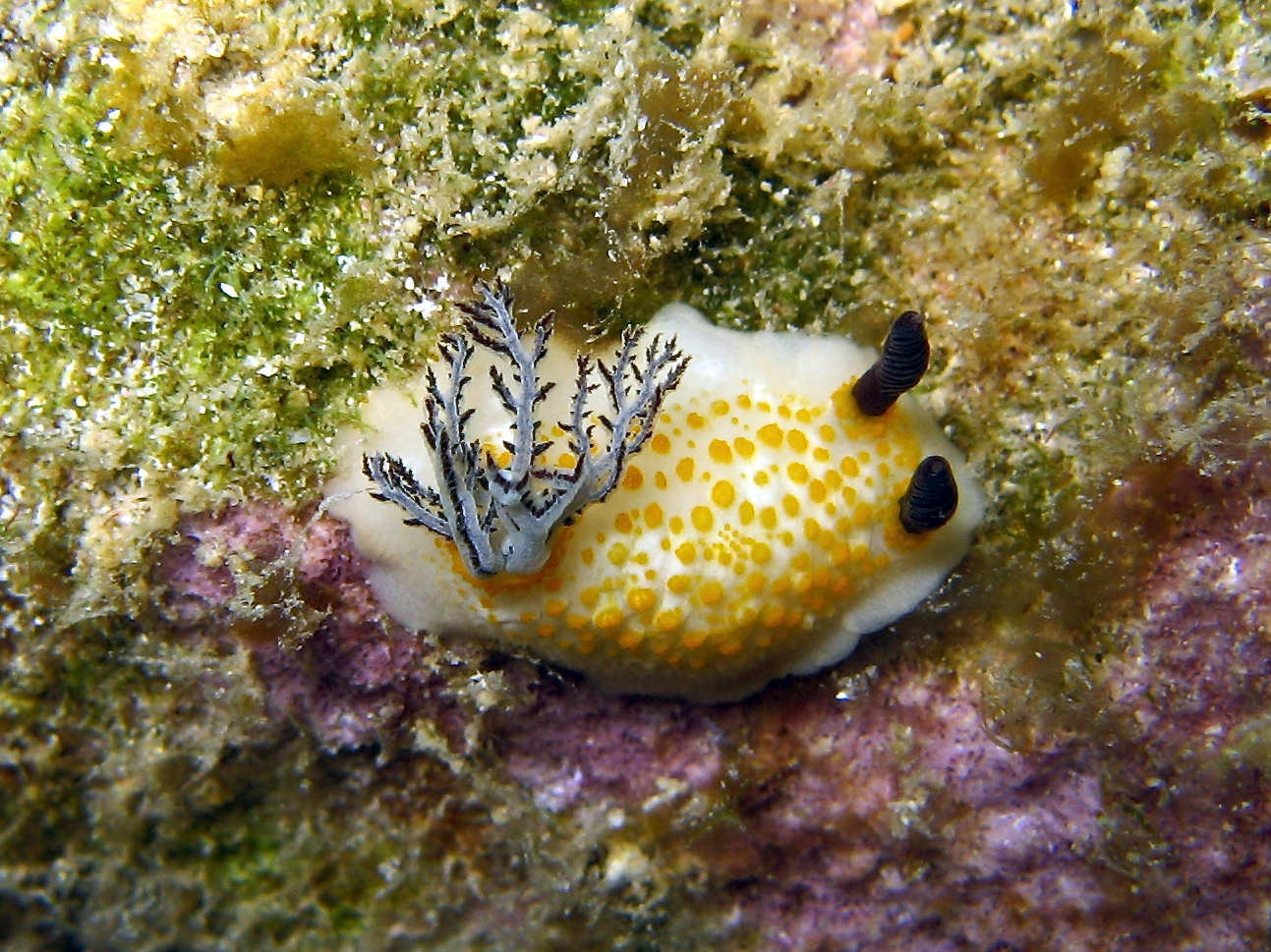 Nudibranch Taringa halgerda taken near Puerto Galera, the Philippines